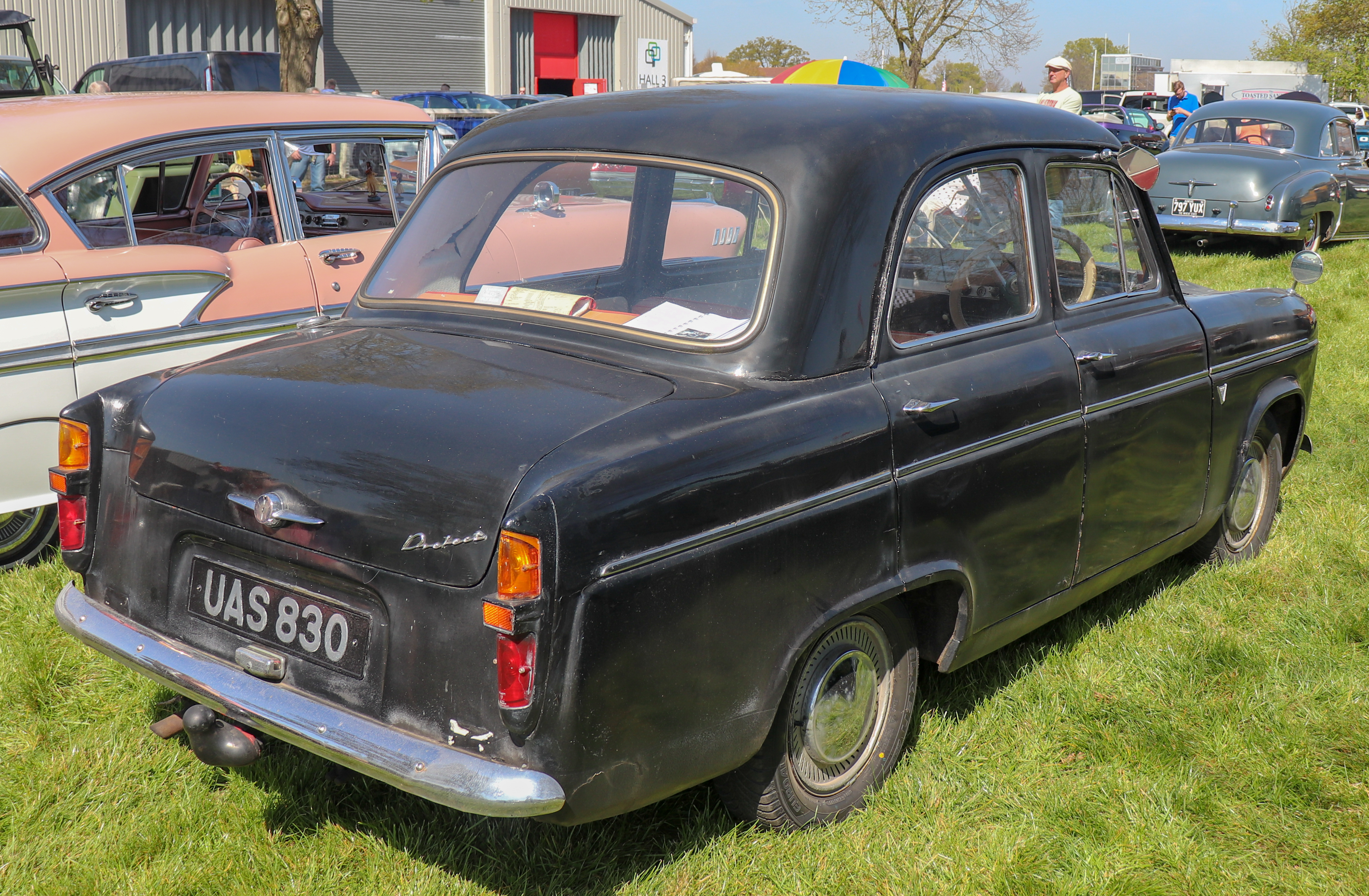 1959 Ford Prefect 100E 1.2 Rear Taken at the Midlands Auto Fest 2019 NAEC Stoneleigh, Stoneleigh, Coventry